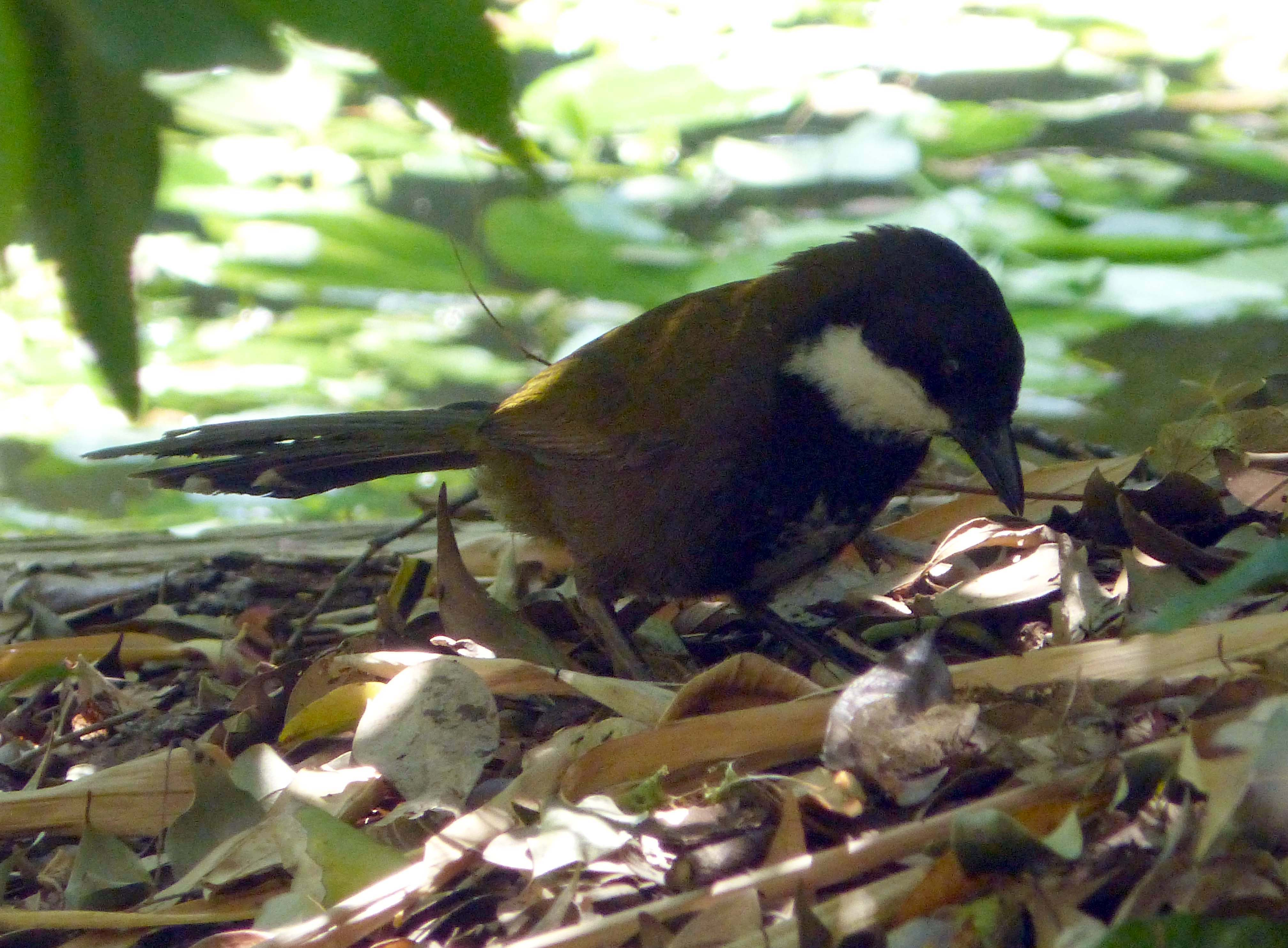 Mt. Coot-tha Botanical Garden. Brisbane. QLD